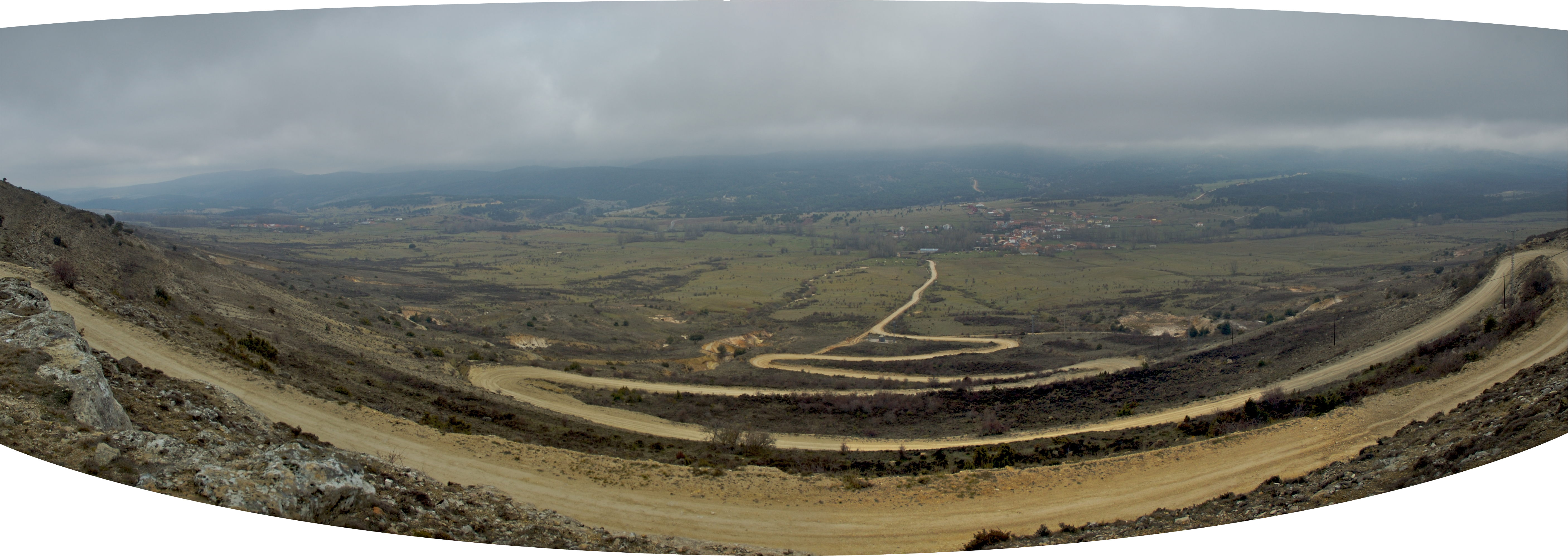 Condemios de Arriba, Guadalajara, Spain.